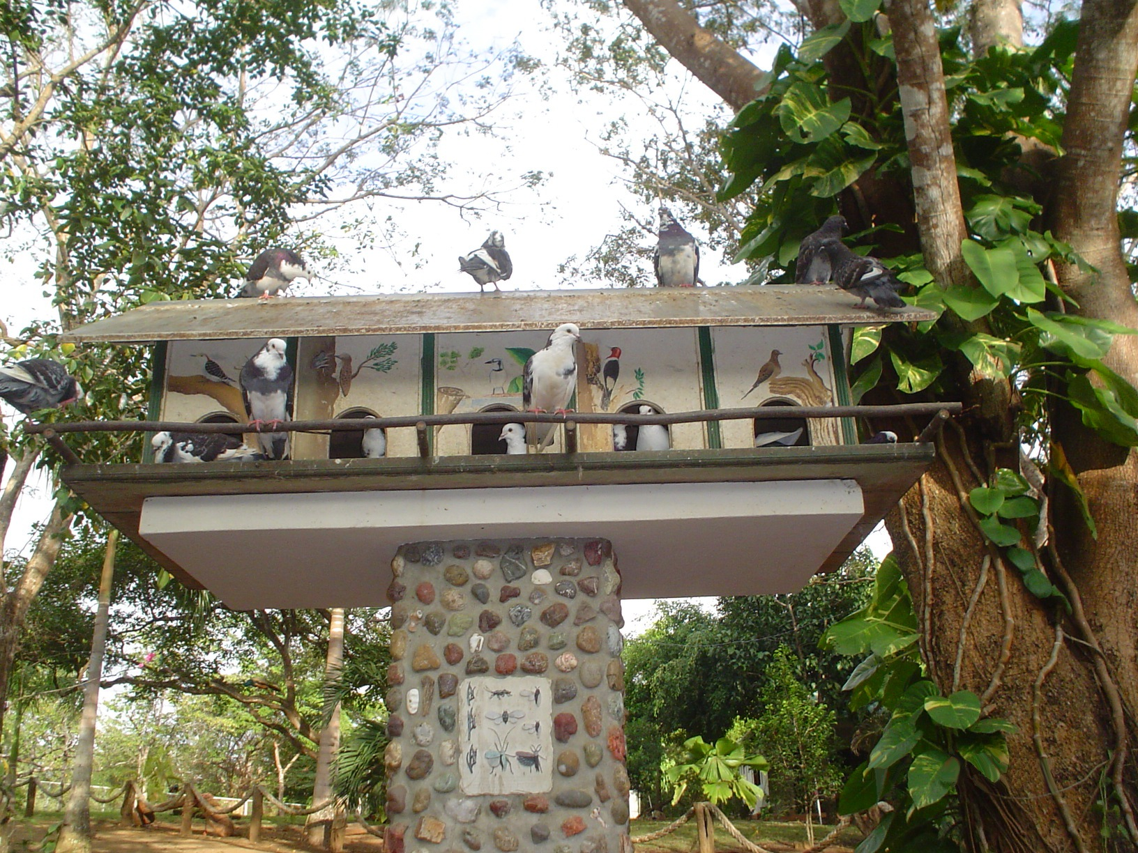 A pigeon loft